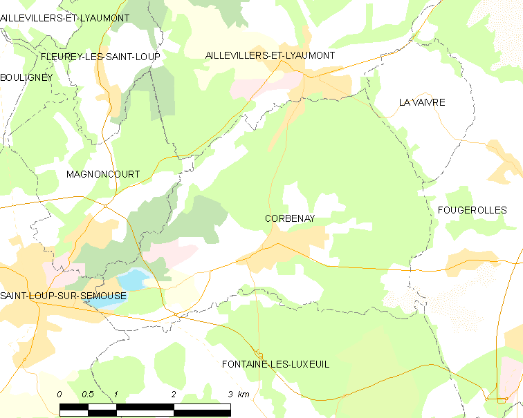 Map of French municipality